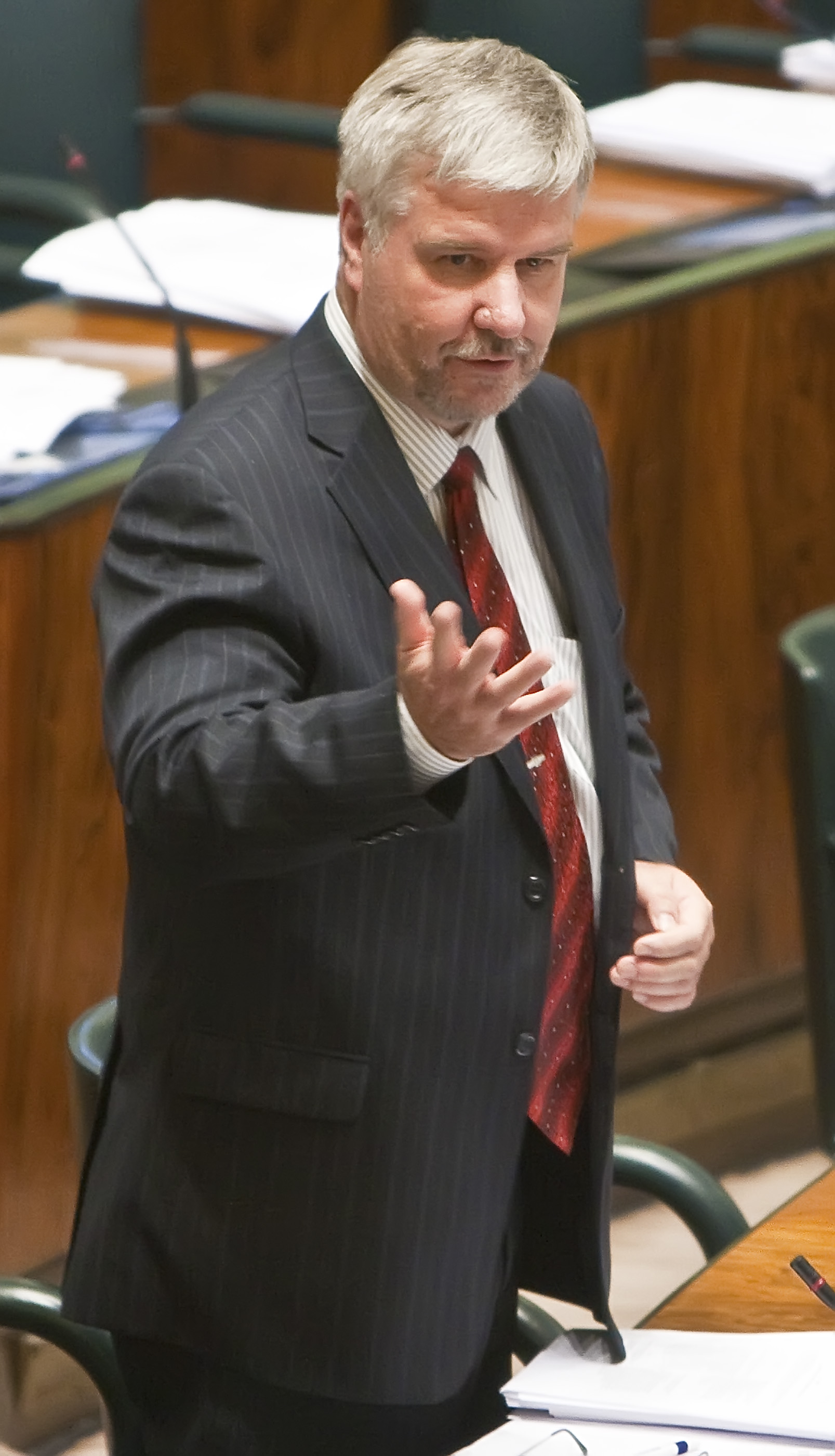 Toimi Kankaanniemi. Member of Finnish parliament until 2011.